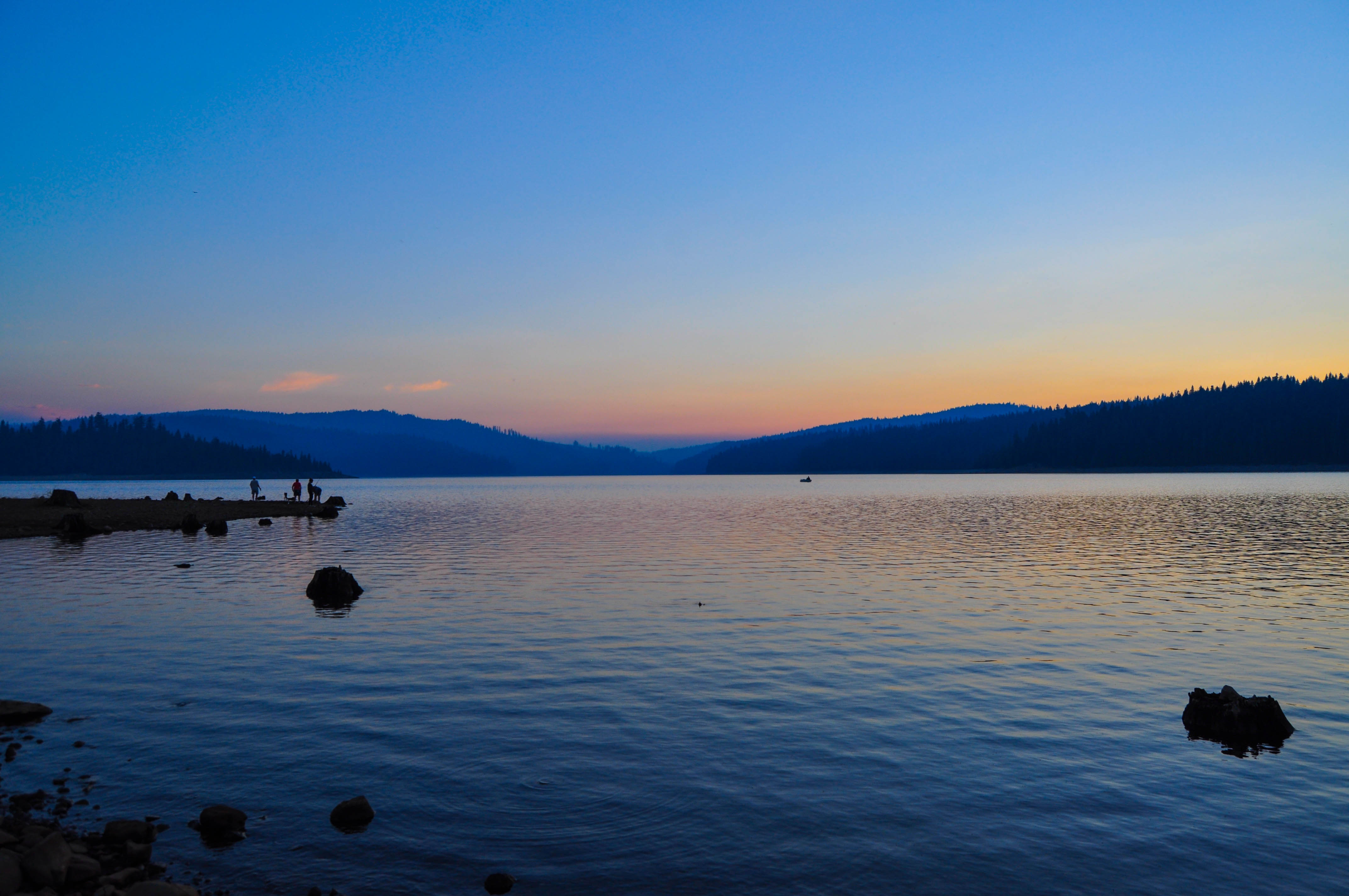 Taken right by the campsite.